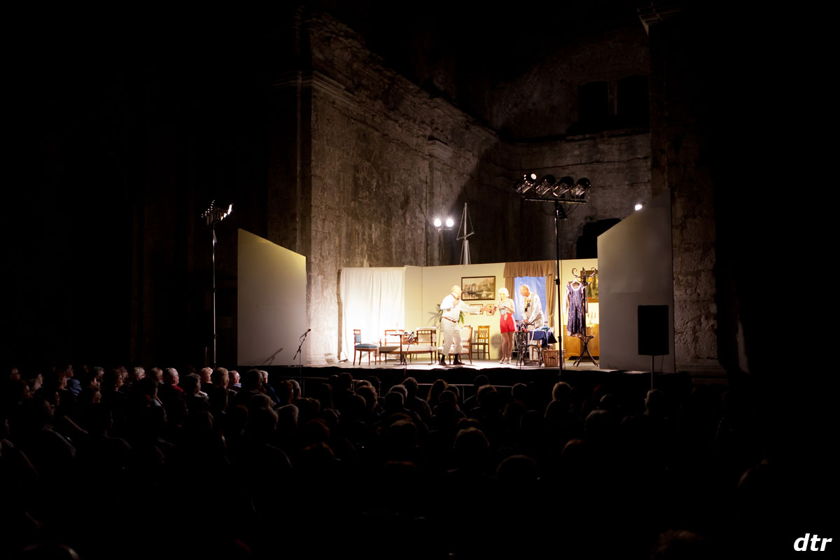 One of the shows at Kastav Cultural Summer main stage